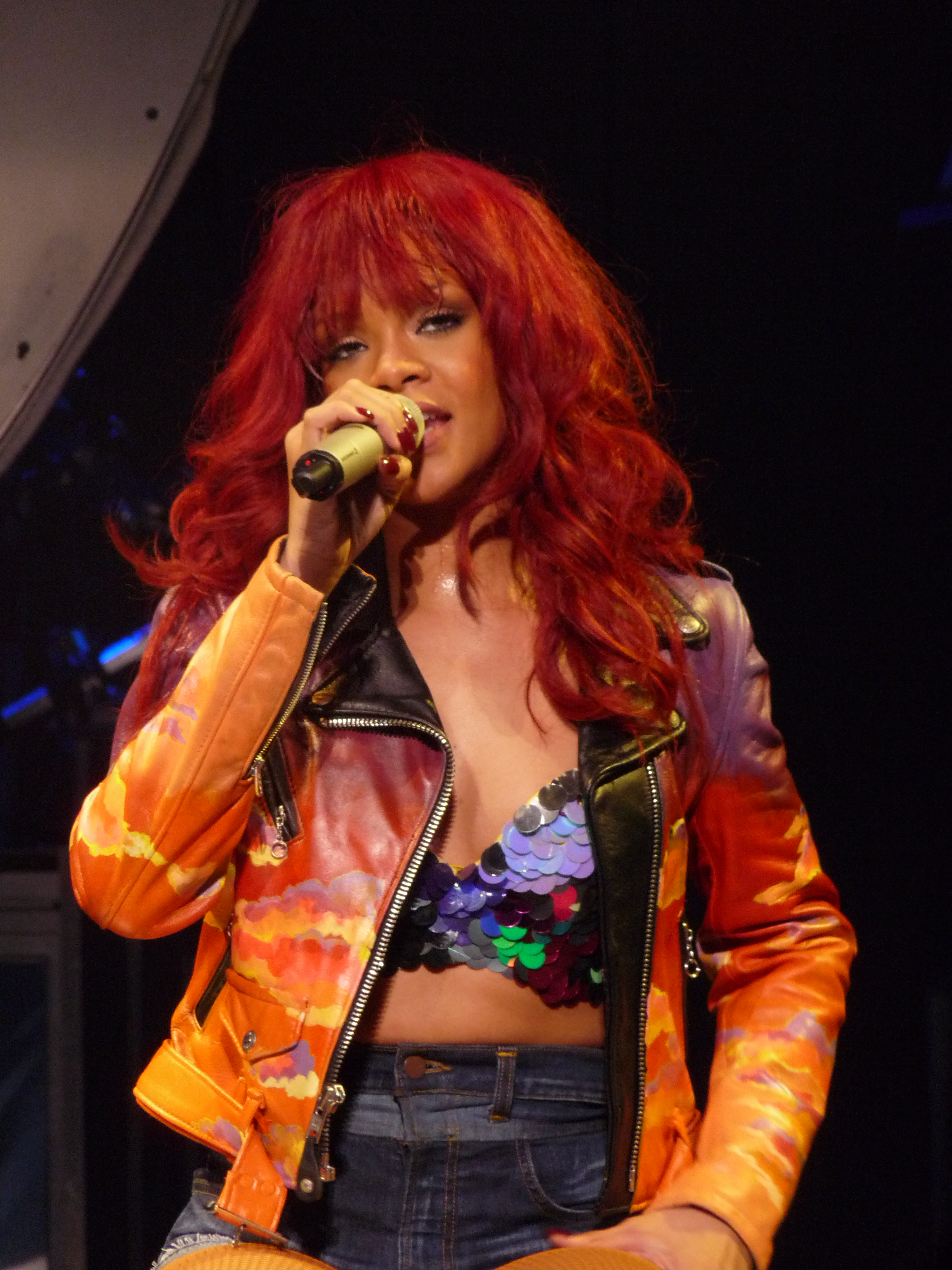 Rihanna live at Bankatlantic Center, Sunrise, Florida, on her tour The LOUD Tour. 14th July 2011